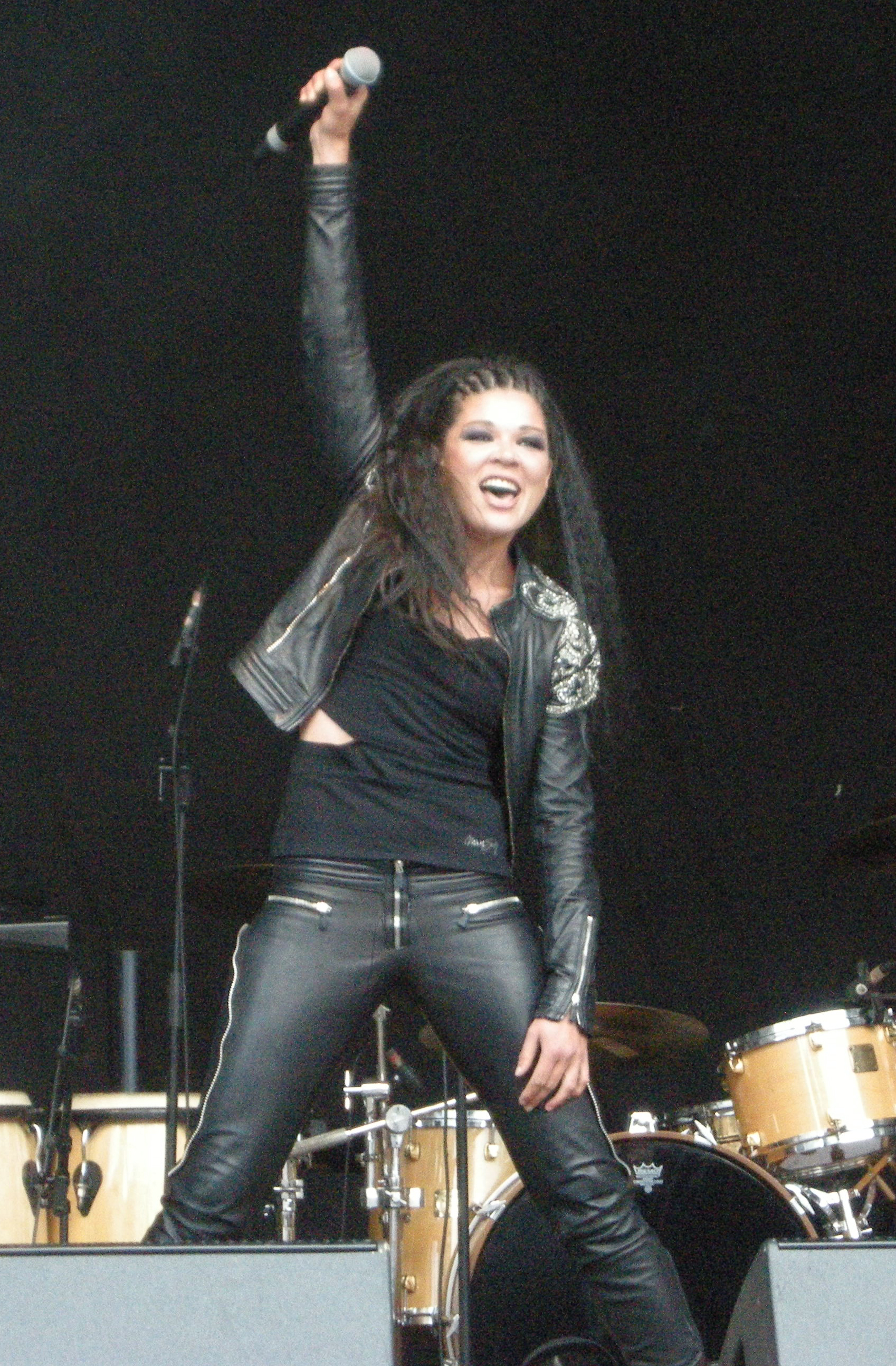 Ruslana in Belgium at the Antwerp Pride Festival 2013